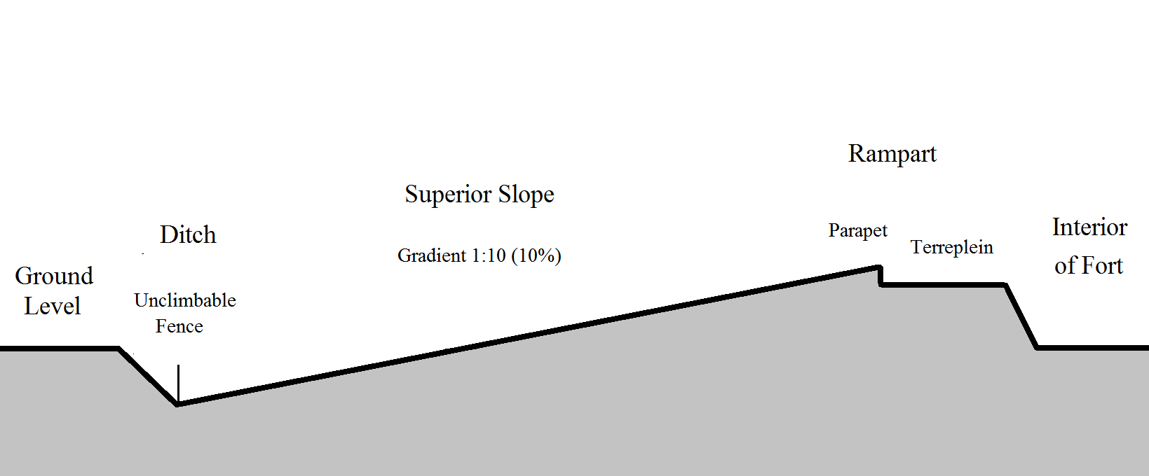 A section through the ditch and rampart of a fortification using the Twydall Profile, intended to deflect or absorb the effect of high explosive shells, Designed by Sir George Sydenham Clarke, this method was first used in two redoubts at Twydall in Kent in 1885.